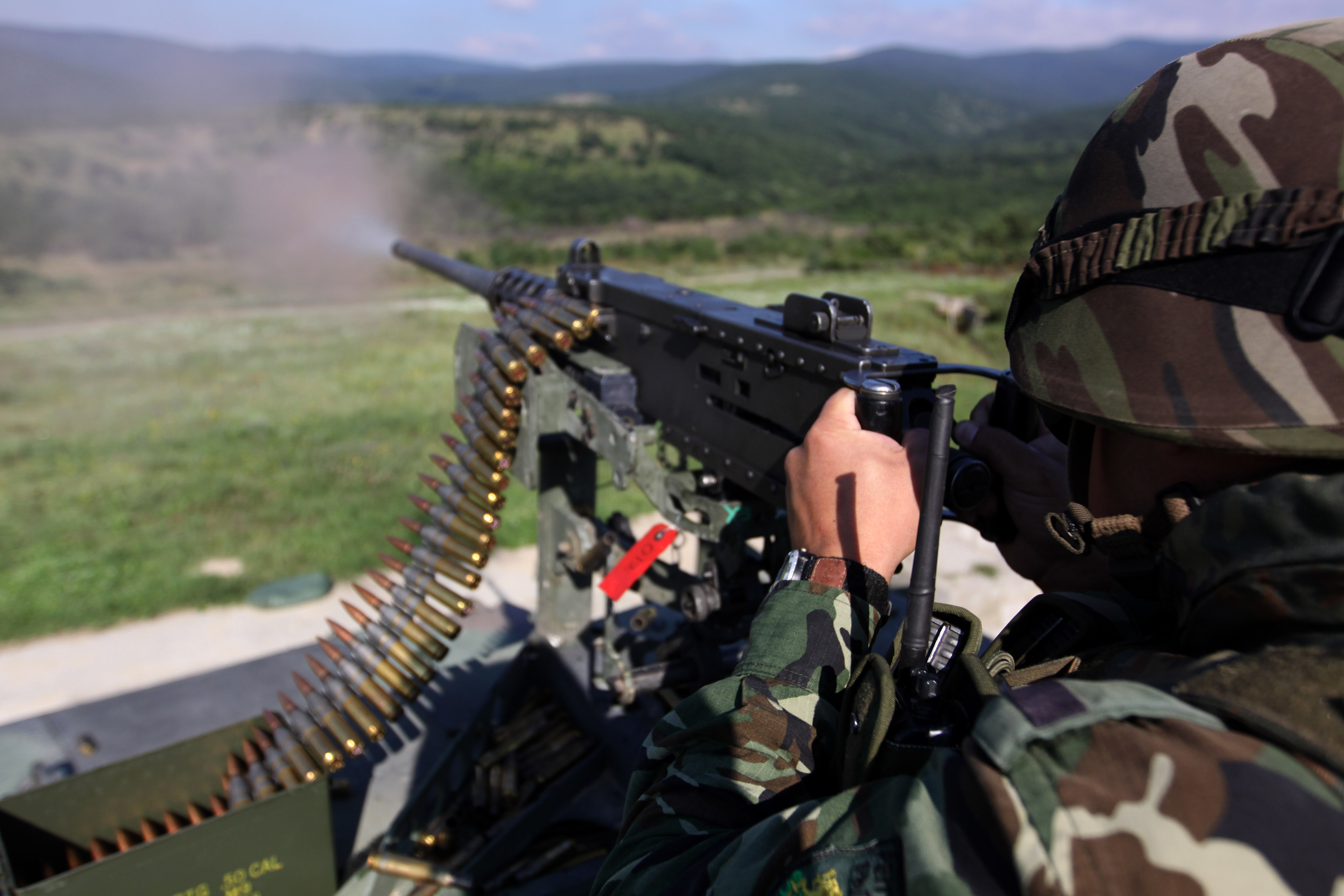 A Bulgarian army soldier with 38th Infantry Battalion, 2nd Light Infantry Brigade, fires an M2 .50-caliber heavy machine gun during a live-fire exercise with the Marines and Sailors of scout platoon, Headquarters and Service Company, 1st Tank Bn., at Novo Selo Training Area, Bulgaria, July 7. The soldiers have spent the past two weeks honing their combat skills as part of the final peacekeeping operation of Black Sea Rotational Force 2010.